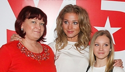 Actress Kristina Asmus with her mother and sister at the premiere of the comedy "Understudy" December 20, 2012.